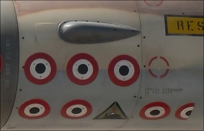 The killing marks of IAF F-16 Netz 107 which include: Iraqi nuclear reactor and 6.5 Syrian aircrafts